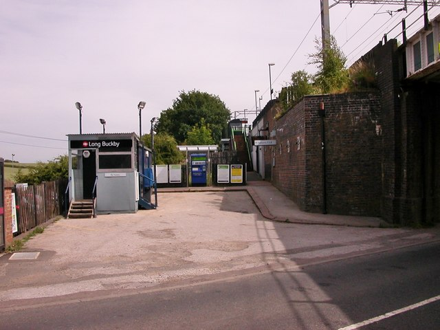 Long Buckby railway station entrance